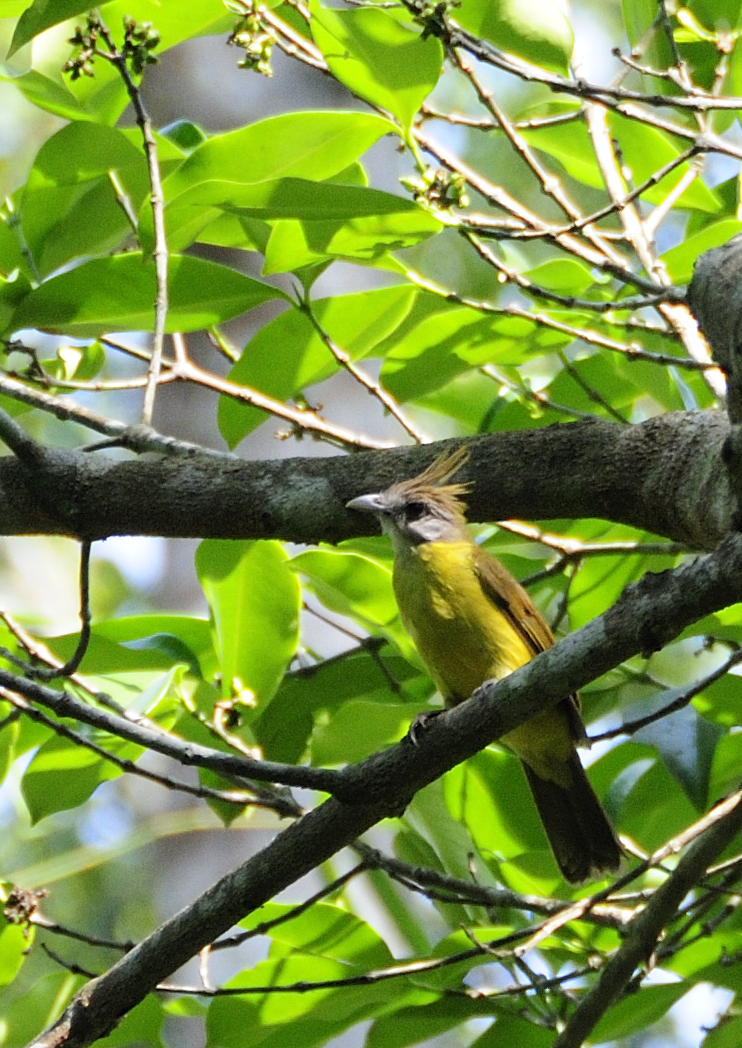 White-throated Bulbul (Alophoixus flaveolus). Shatchari, Sylhet.